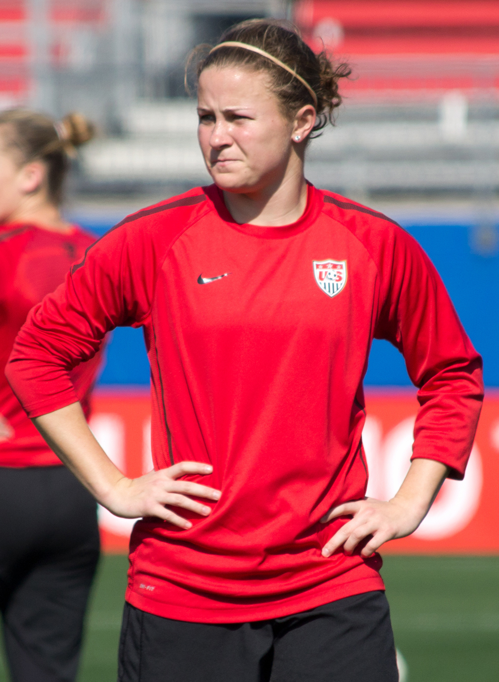 Christine Nairn of the United States Women's National Soccer Team in Frisco, Texas